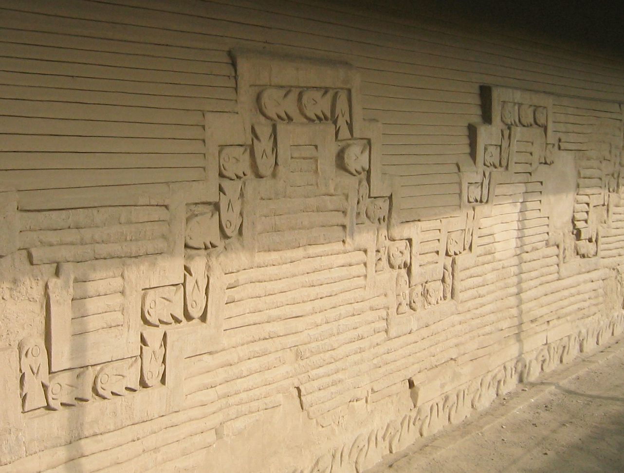 Photo taken and uploaded by User:Gsd97jks - no copyright